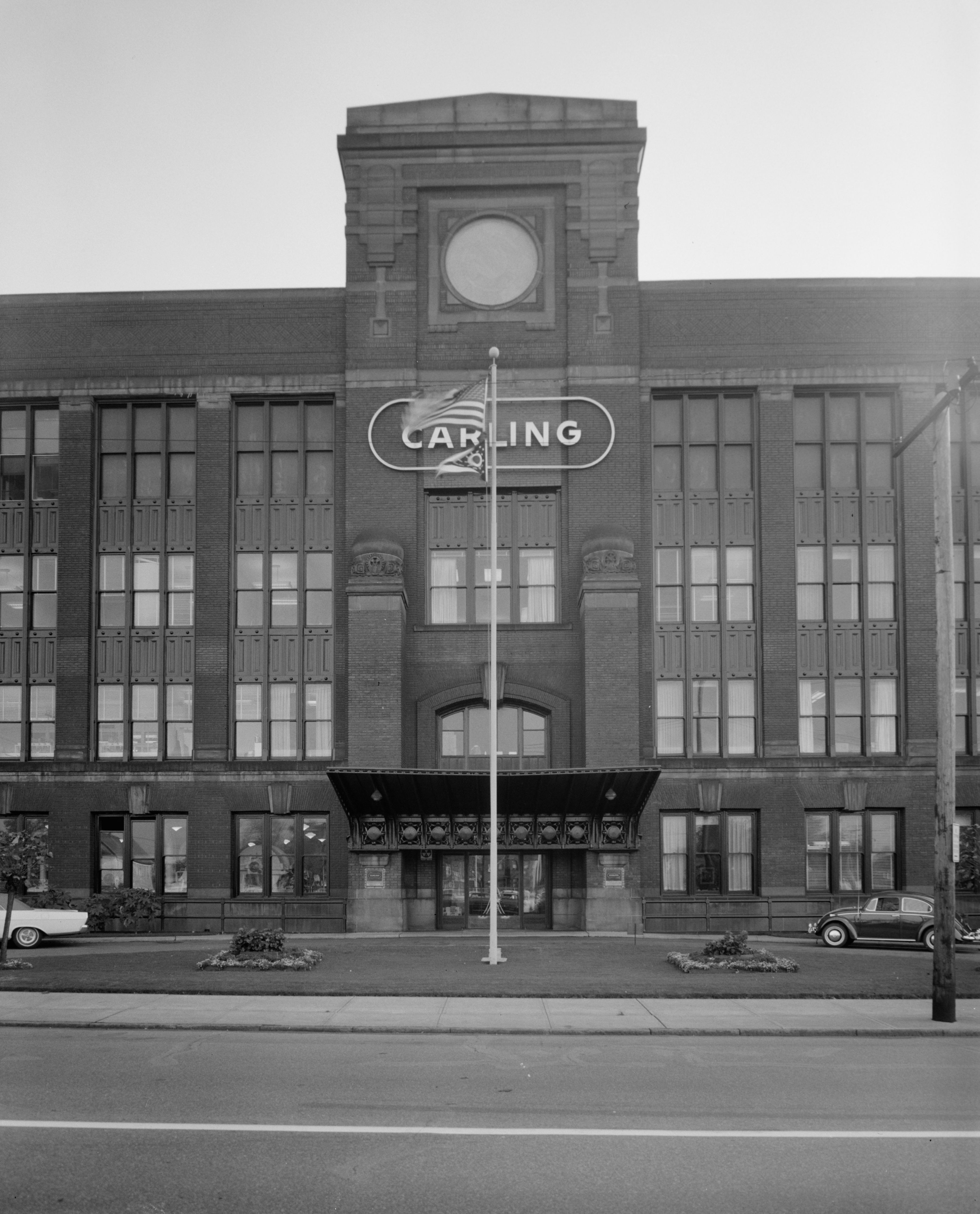 National Register of Historic Places in Ohio. Peerless Motor Company Plant No. 1, Quincy Avenue & 93, Cleveland, Cuyahoga County, Ohio, NORTH FACADE (ON QUINCY AVENUE). Alternate Title: Carling Brewing Company Building Building/structure dates: 1906 initial construction.